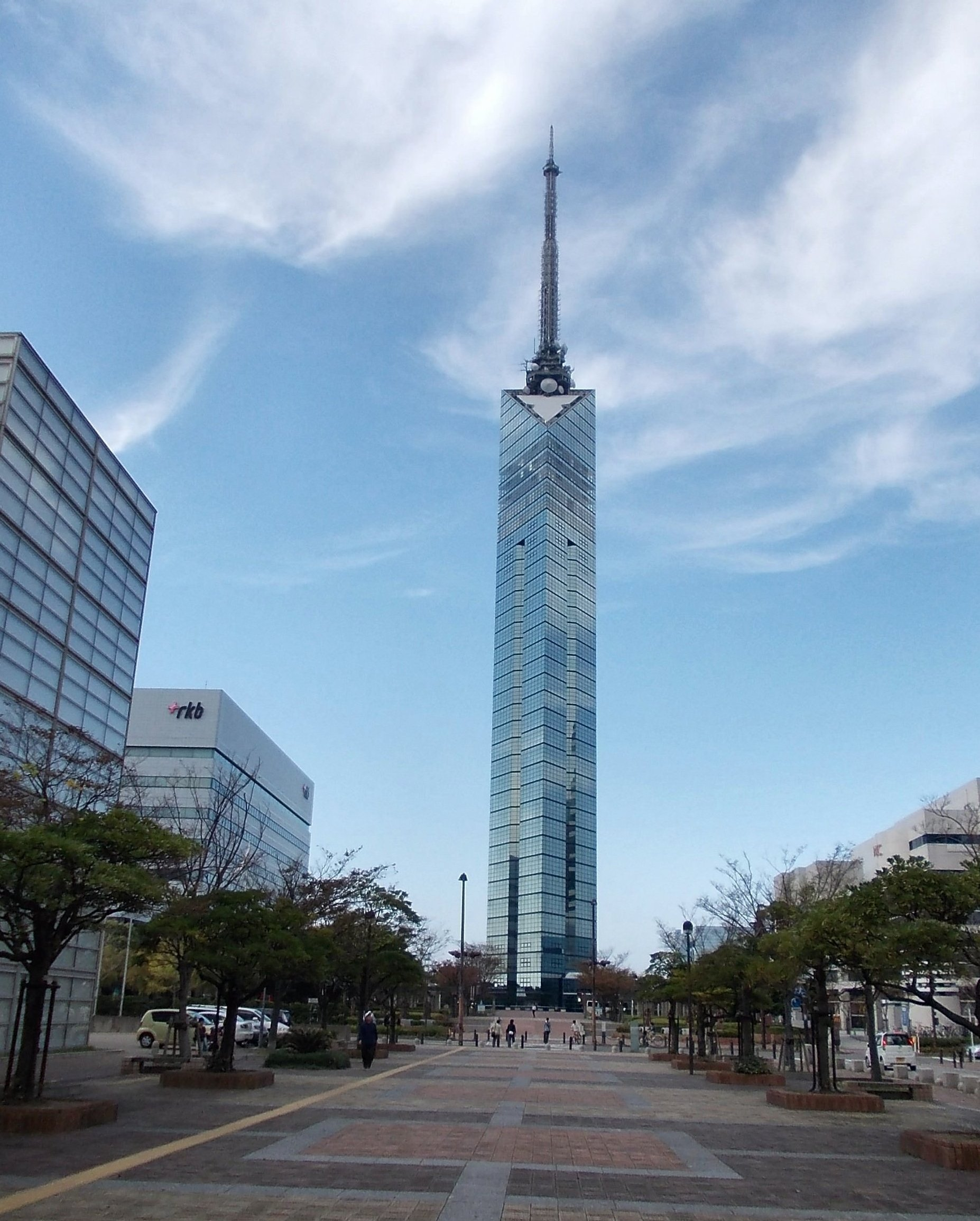 Fukuoka Tower, Sawara-ku, Fukuoka, Japan